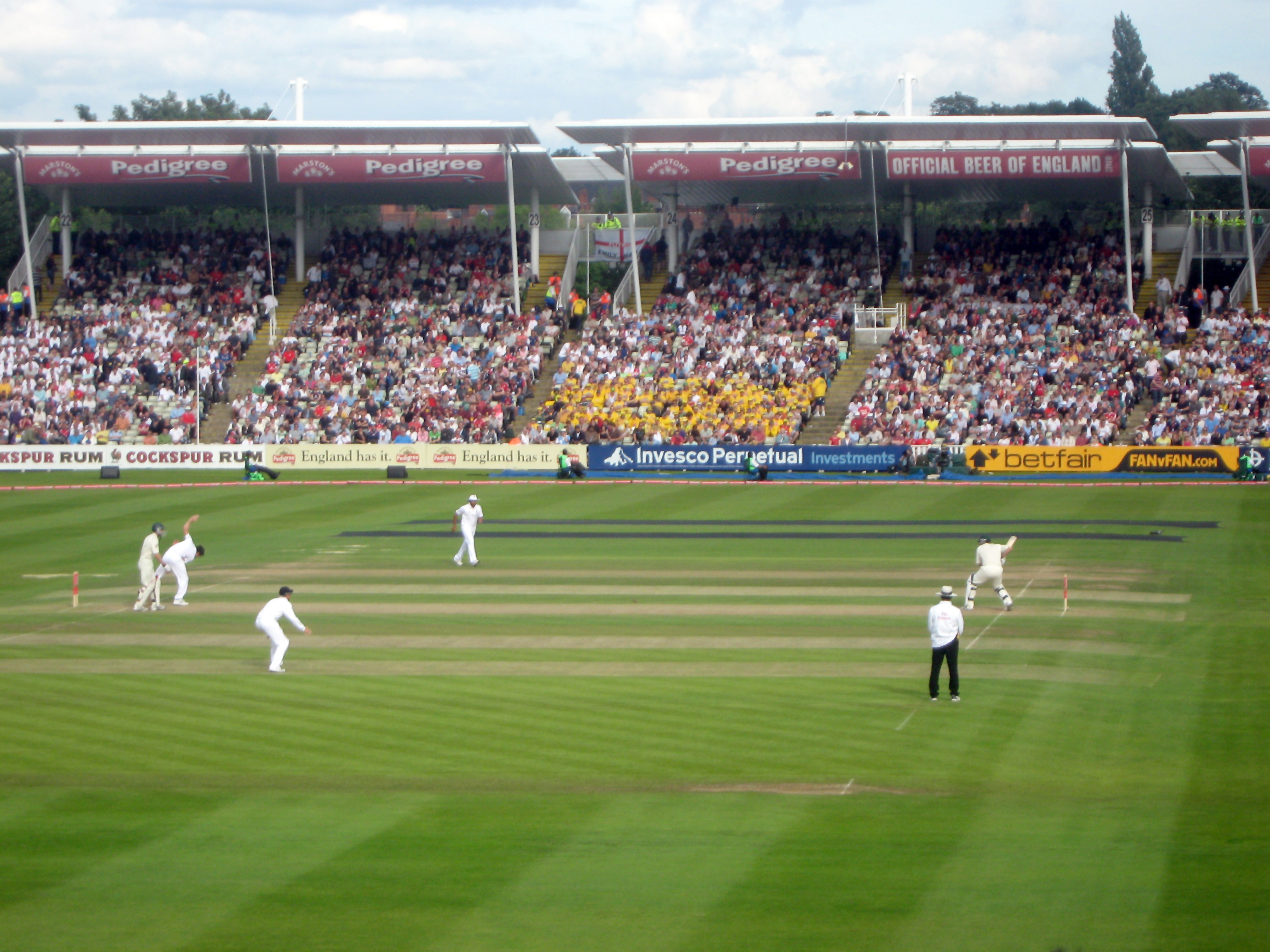 England vs Australia, the Third Ashes Test, 2009